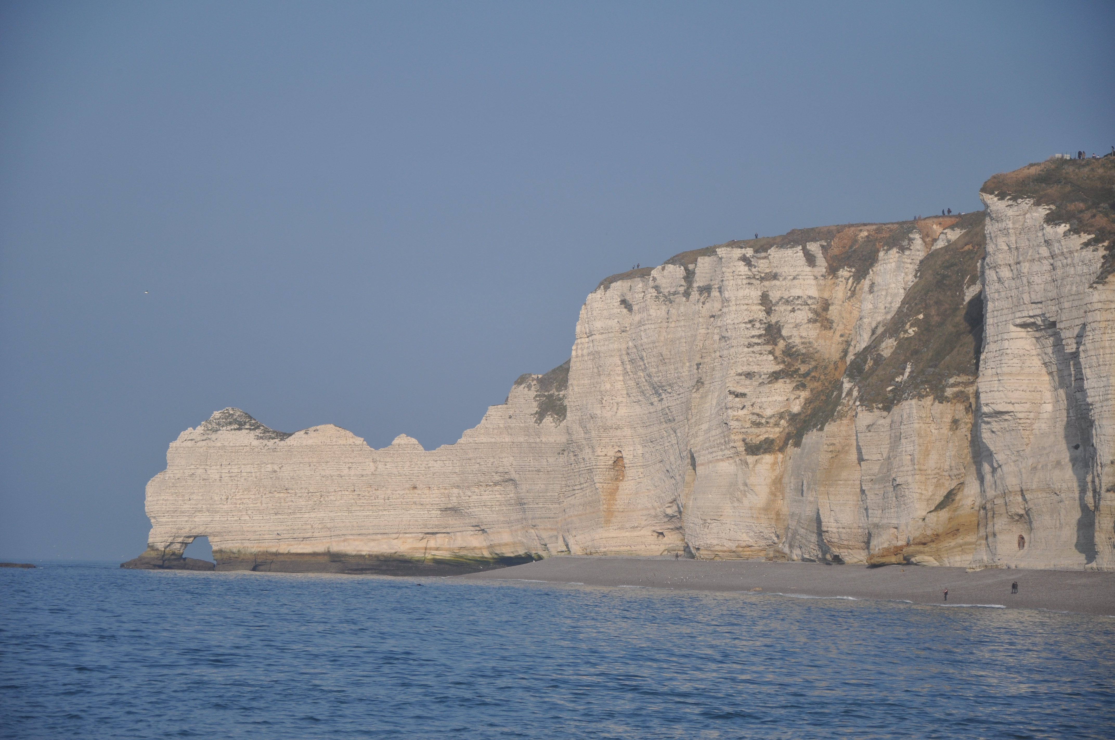 Ciff of Étretat (France, Normandy)